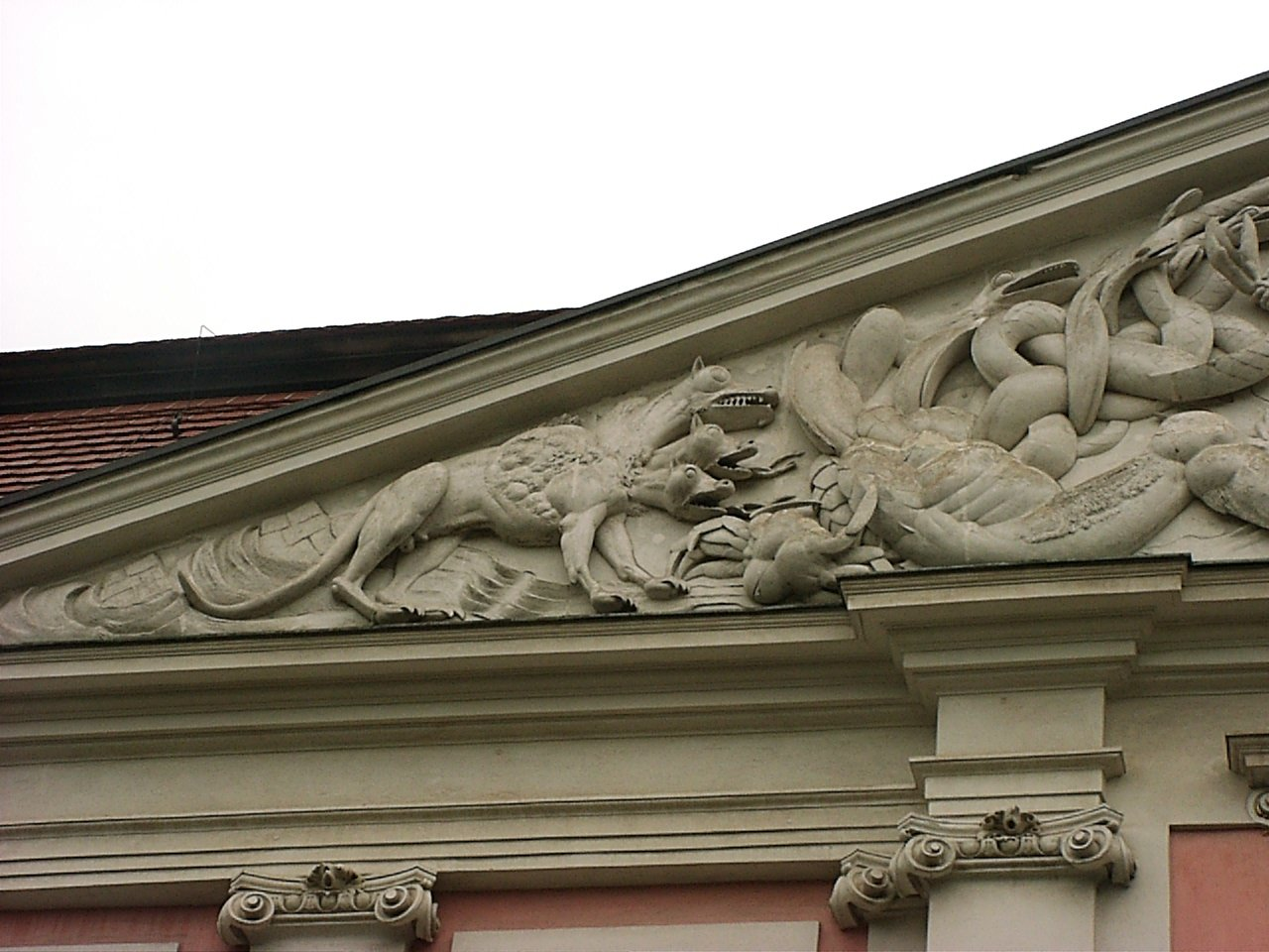 Relief of Cerberus on portico of castle Friedrichsfelde in Tierpark Berlin zoo, Berlin, Germany. May 2005. Public Domain